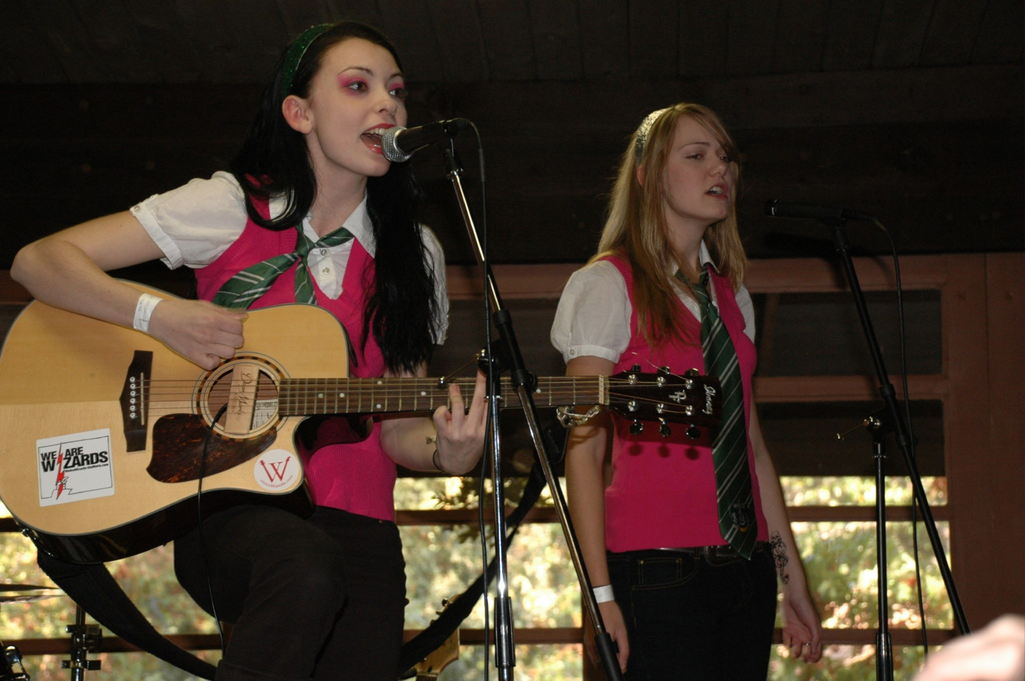 From left to right : Brittany Vahlberg and Kristina Horner during a performance at Wrockstock at Trout Lodge in Potosi, Missouri in October, 2007.